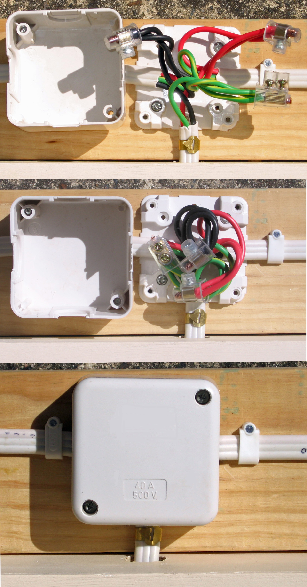 An Australian standard sized internal surface mounted junction box. (Used under floors and in ceiling spaces.) • Top – Conductors joined, using screw-connectors. o Note the use of transparent plastic for the screw-connectors and the use of two screws on the earth connector (to be sure, to be sure!). • Middle – Terminated conductors folded to fit under the cover. • Bottom – Cover in place.